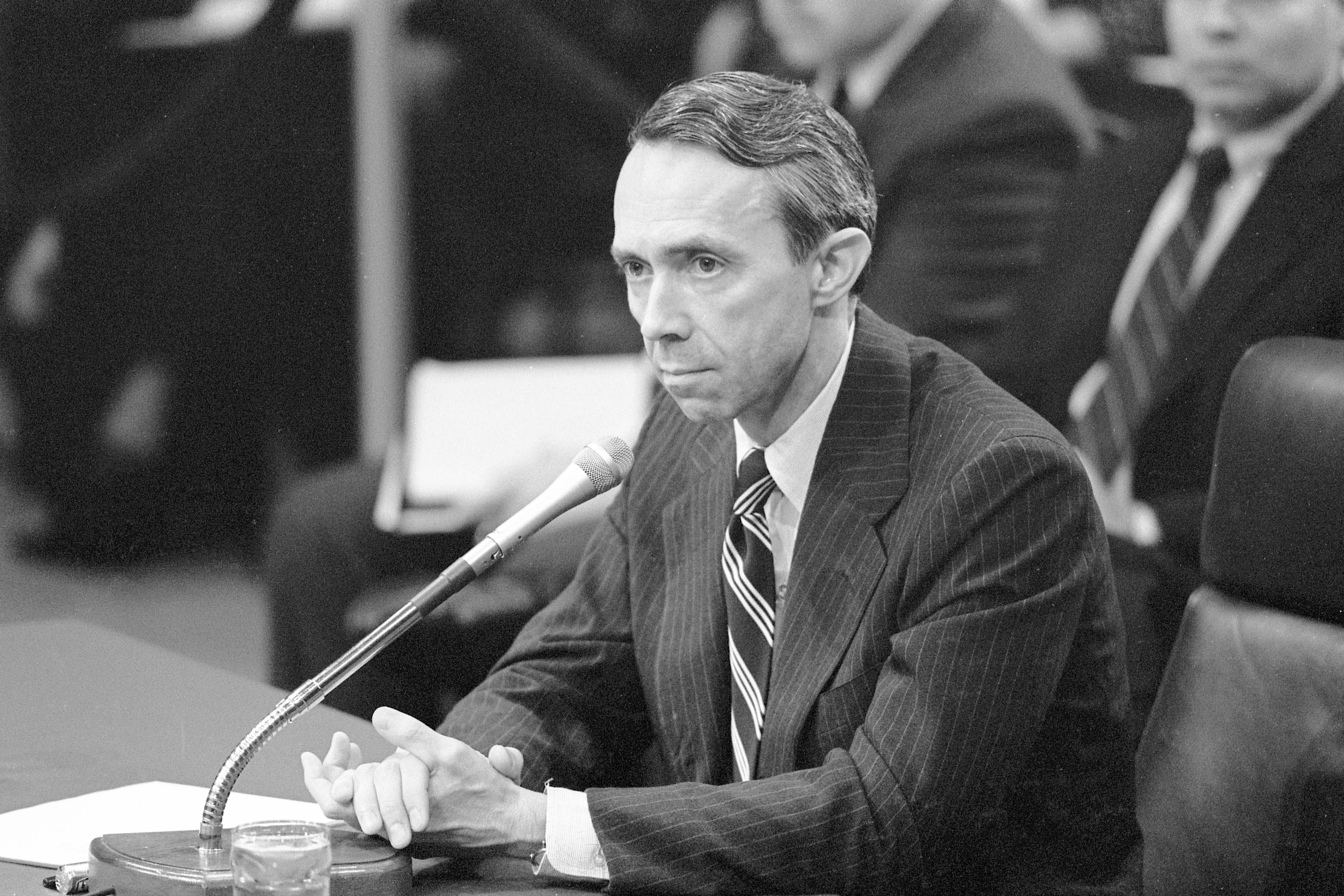 David Souter, half-length portrait, seated, facing front, at microphone, testifying during his confirmation hearings for Supreme Court Associate Justice